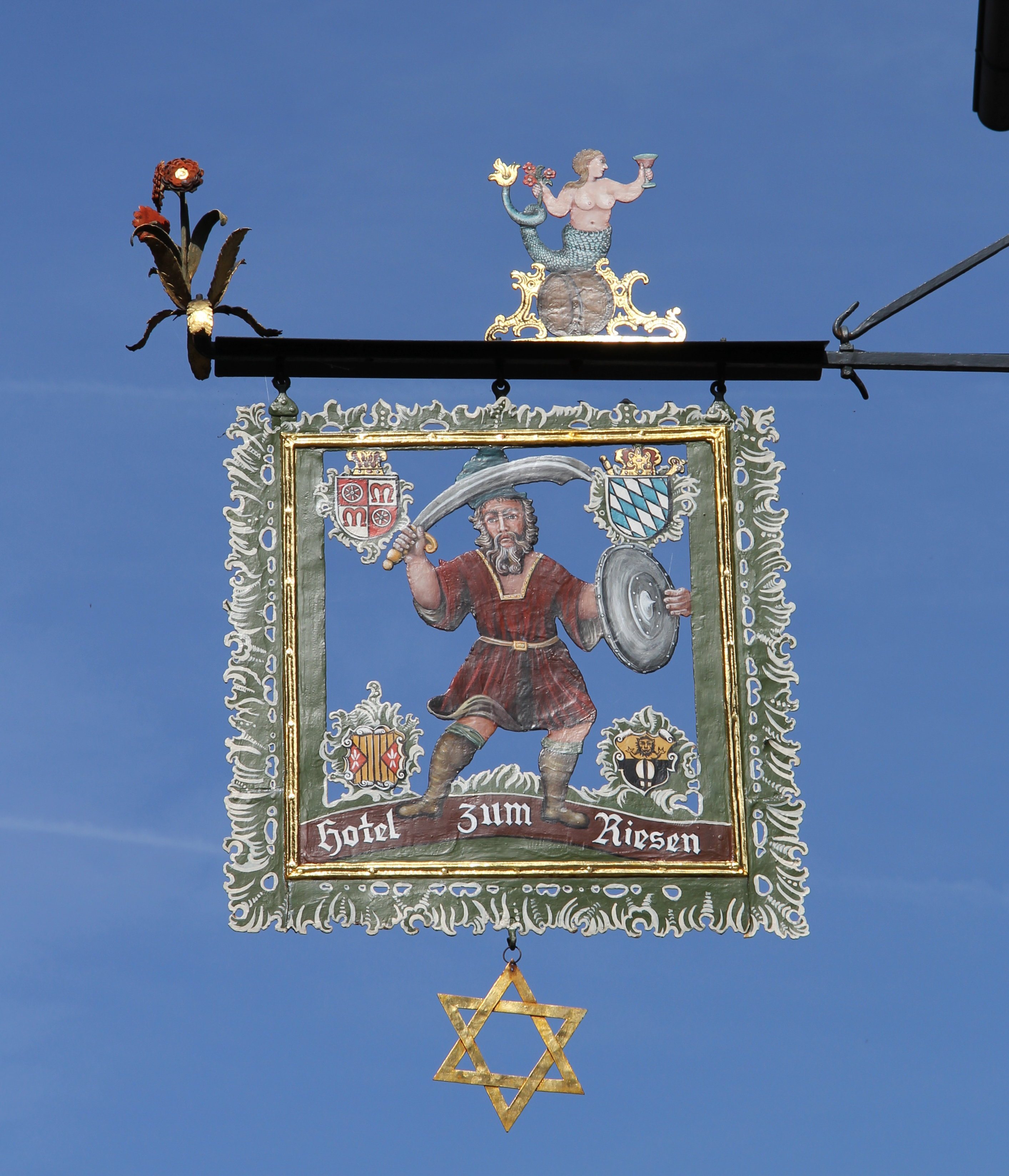 Sign with a Brewer's star below at the front of "Hotel zum Riesen" in Miltenberg, Bavaria, Germany.